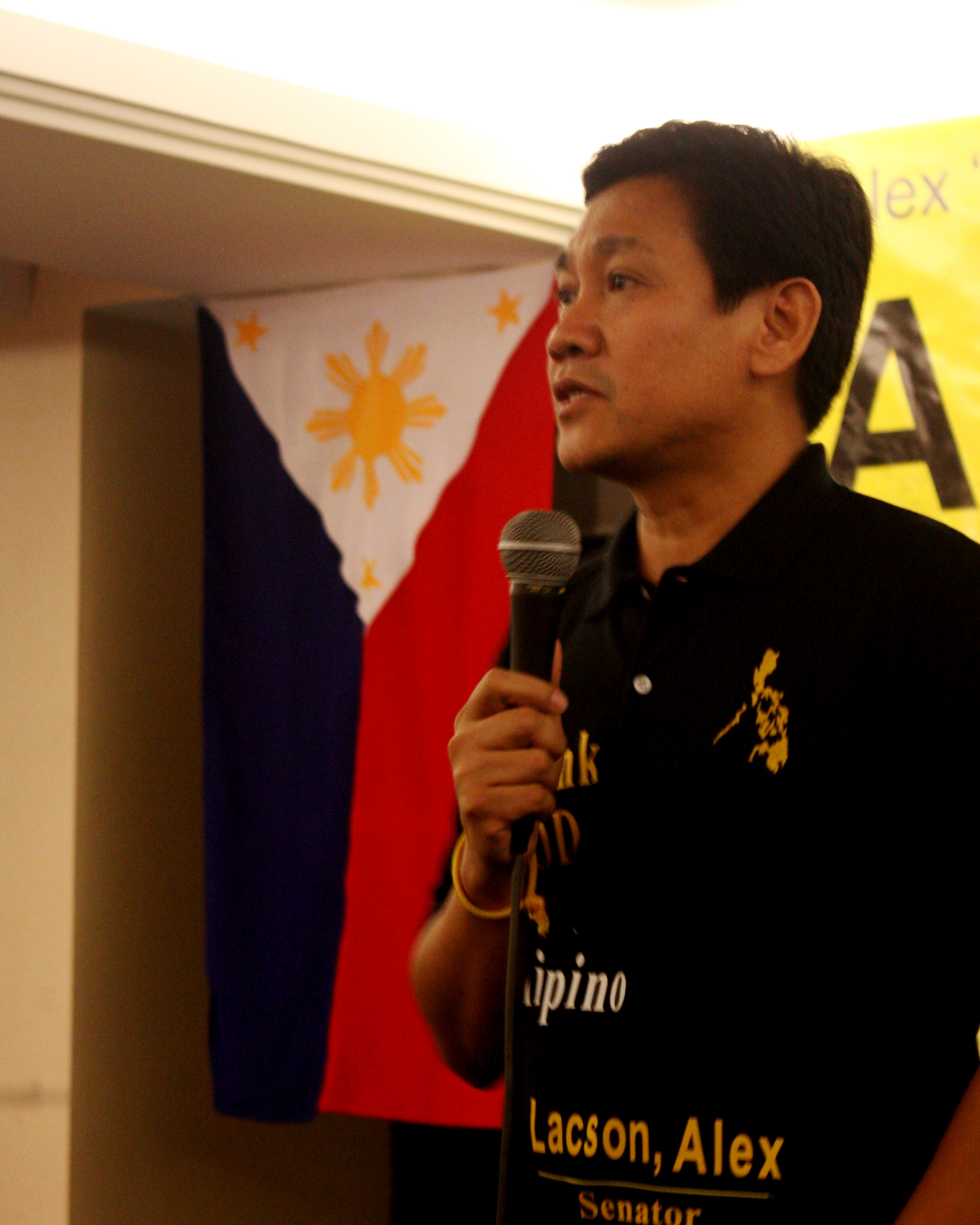 Senatorial Candidate Alexander L. Lacson at a 2010 fund raising event.